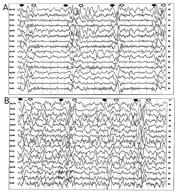 Figure 2. Electroencephalogram (EEG) at the time of presentation in the neurology clinic (A) and 3 months later (B). The initial EEG (A) reveals periodic bursts of high-amplitude, slow-wave complexes. (Onset of the complexes is indicated by solid arrows; offset, by open arrows.) The background rhythm is normal, except for bifrontal slowing. This "burst-suppression" pattern is highly characteristic of subacute sclerosing panencephalitis (4). EEG 3 months later, when the patient's clinical status has worsened (B), again shows periodic high-amplitude slow waves (again, between the solid and open arrows), but they now arise from a diffusely slowed background rhythm, which nearly obscures the periodic slow waves. In both A and B, the interval between each vertical dotted line is one second.